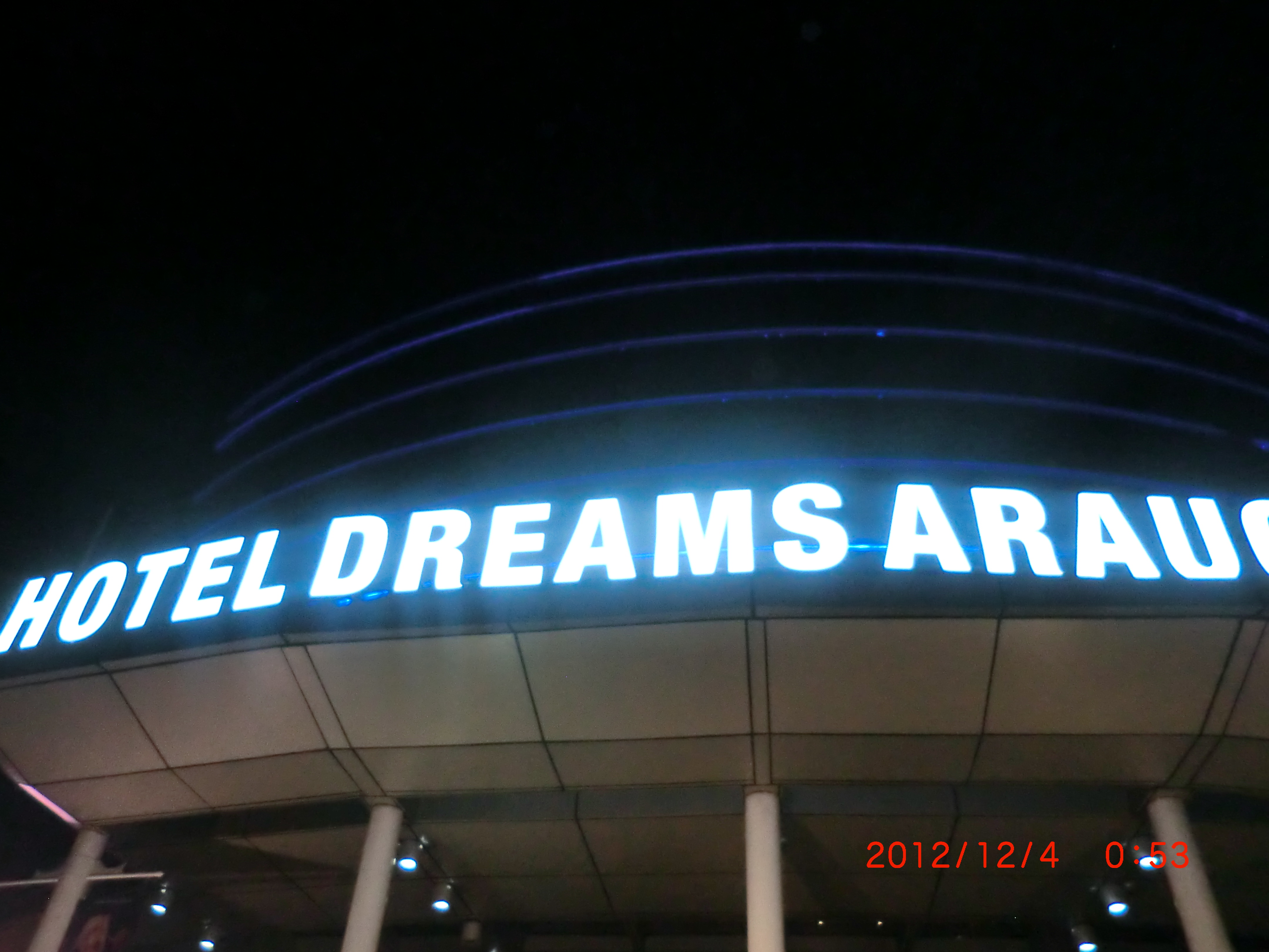 Dreams Temuco